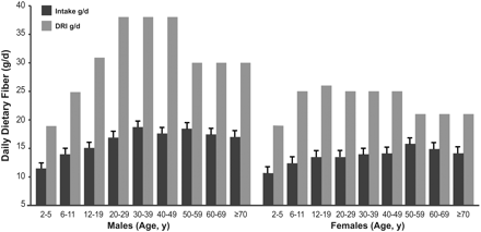 Institute of Medicine; Food and Nutrition Board. Dietary Reference Intakes: energy, carbohydrates, fiber, fat, fatty acids, cholesterol, protein and amino acids. Washington (DC): National Academies Press; 2005.